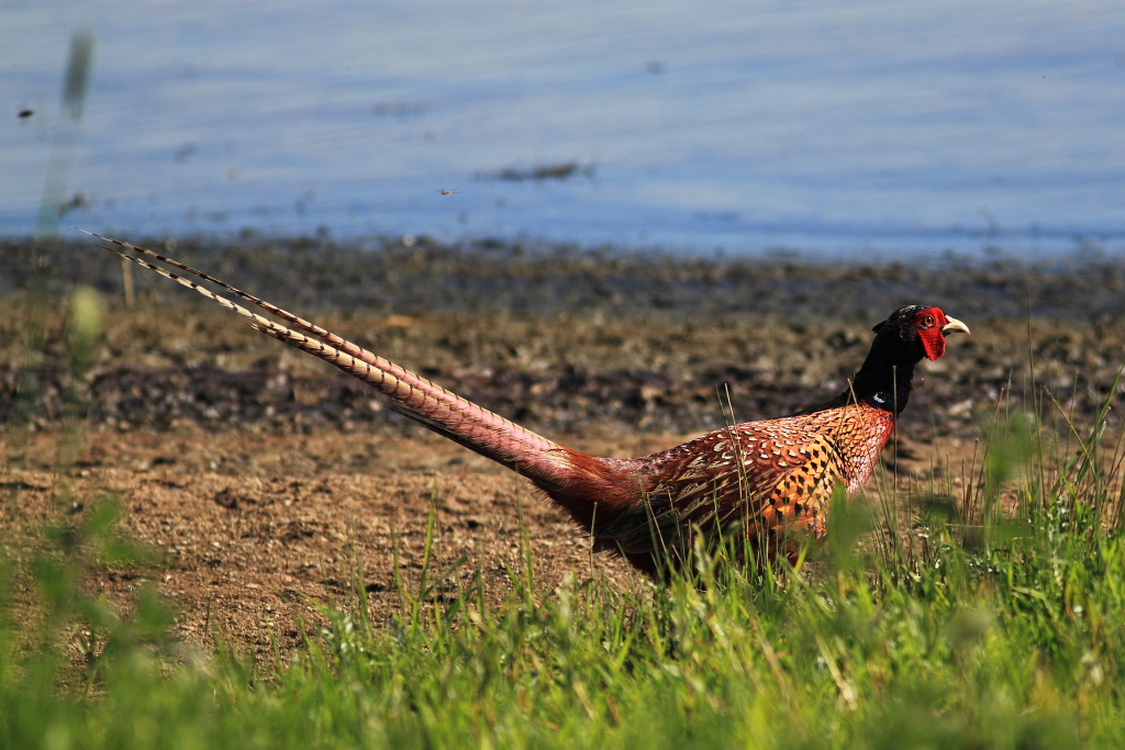 A male Common Pheasant at Rutland Water, Rutland, England.